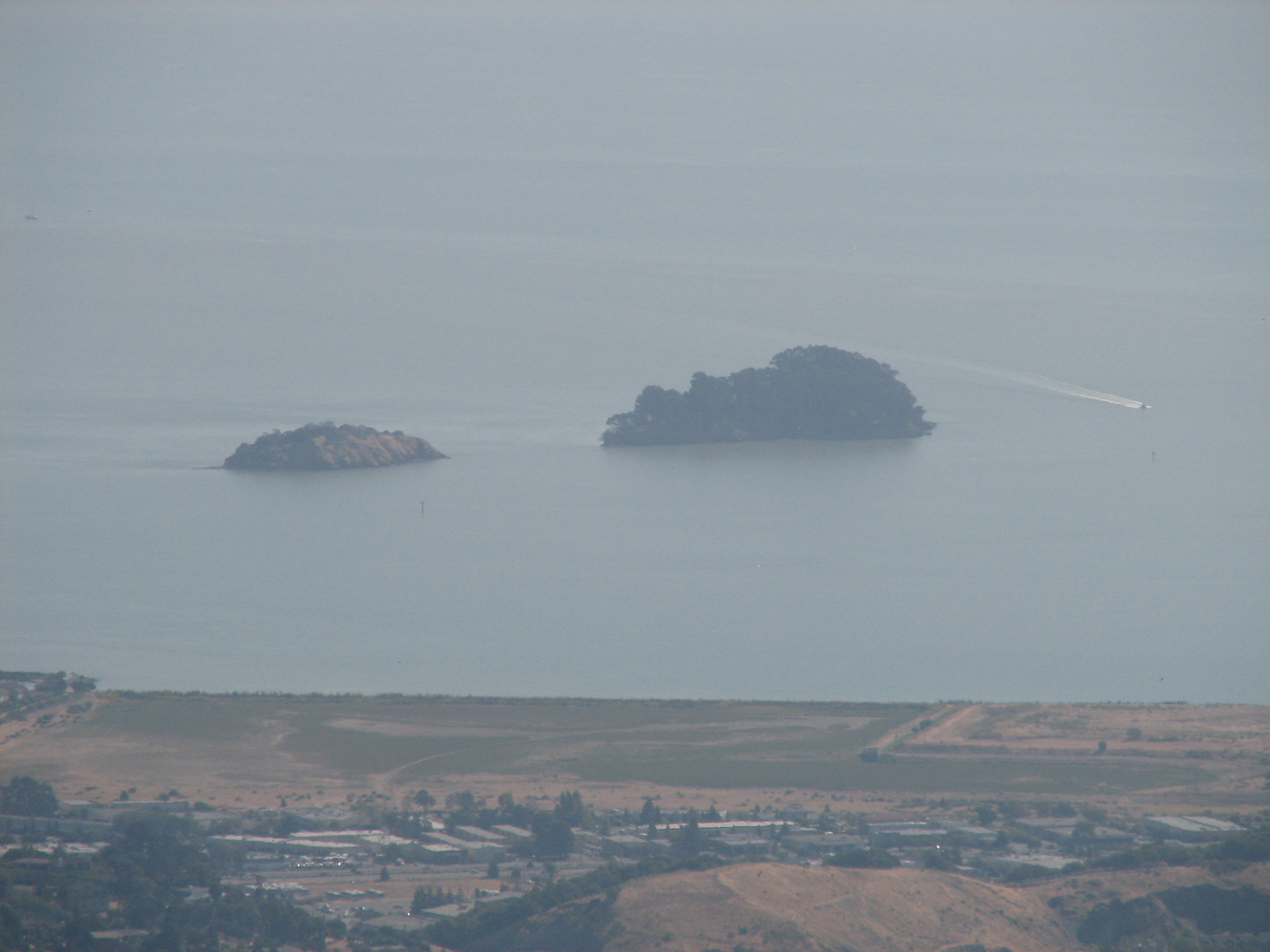 Aerial photo of the Marin Islands, California